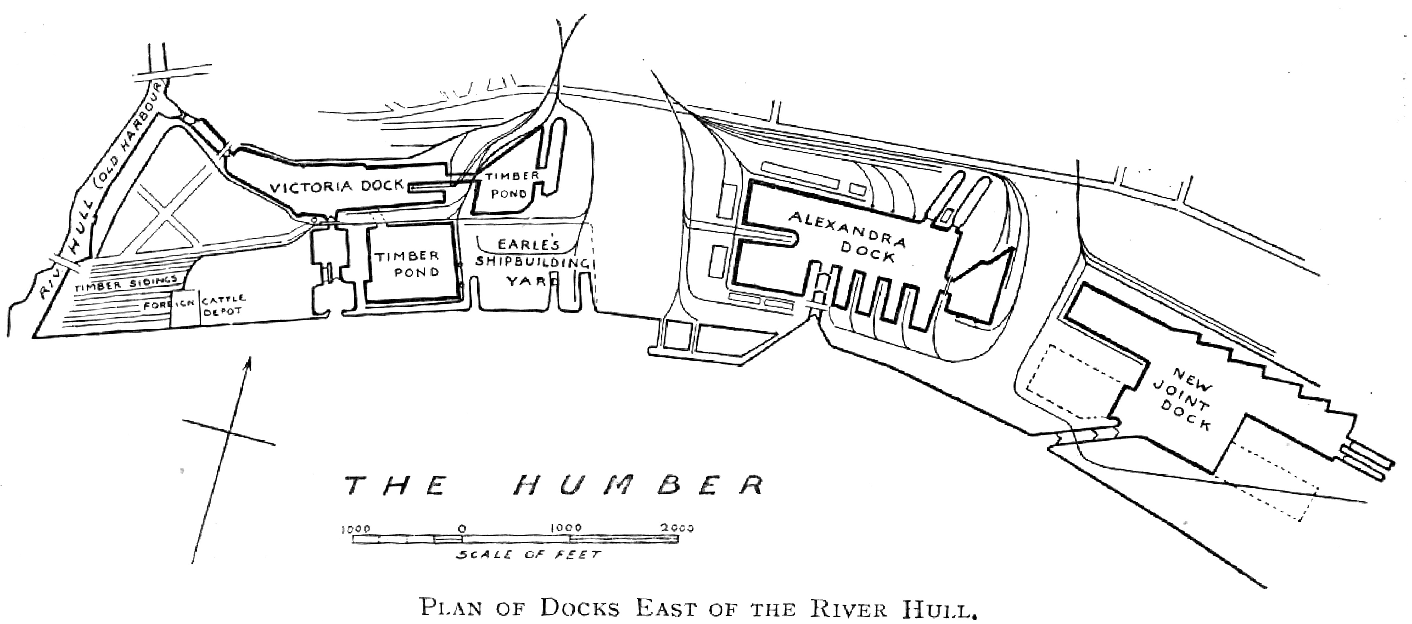 Plan showing Hull docks east of the river hull (c. 1912) - includes Alexandra dock, Victoria dock, and King George dock (labelled "New Joint Dock") as well as Earle's ship yard, cattle sheds, streets on former citadel site. The layout of the "New Joint Dock" as shown does not correspond 100% to that built.